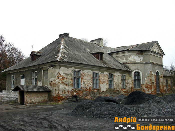 Вид збоку. Старий палац сім'ї Уруських у з с. Йосипівка, Буського району, Львівської області. Зараз там знаходиться лікарня.